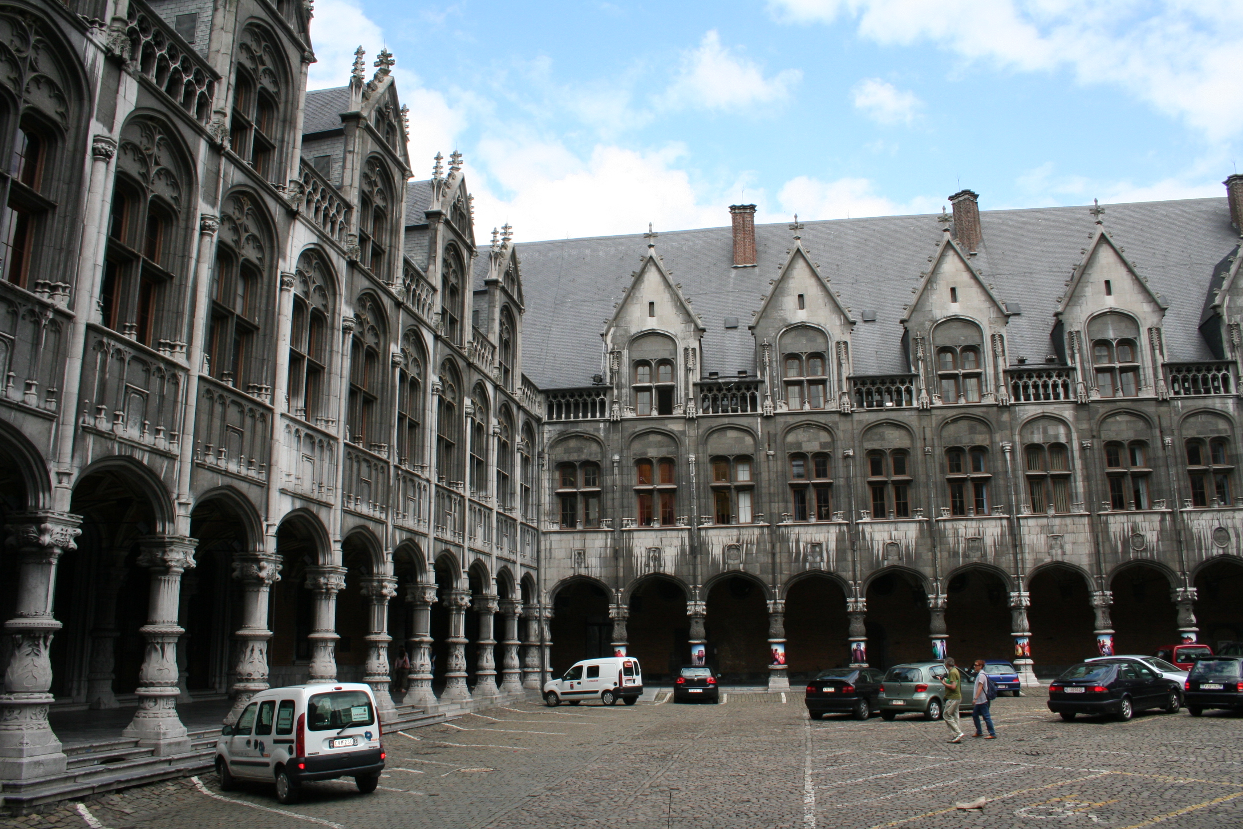 Liège (Belgium), the Prince-bishops Palace main courtyard (XVIth century).